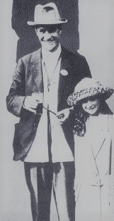 Image depicts Patrick Mahon, executed by hanging on 2 September 1924.